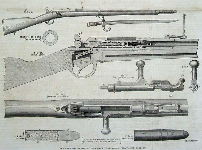 Diagram of the Chassepot rifle's components and cartridge.